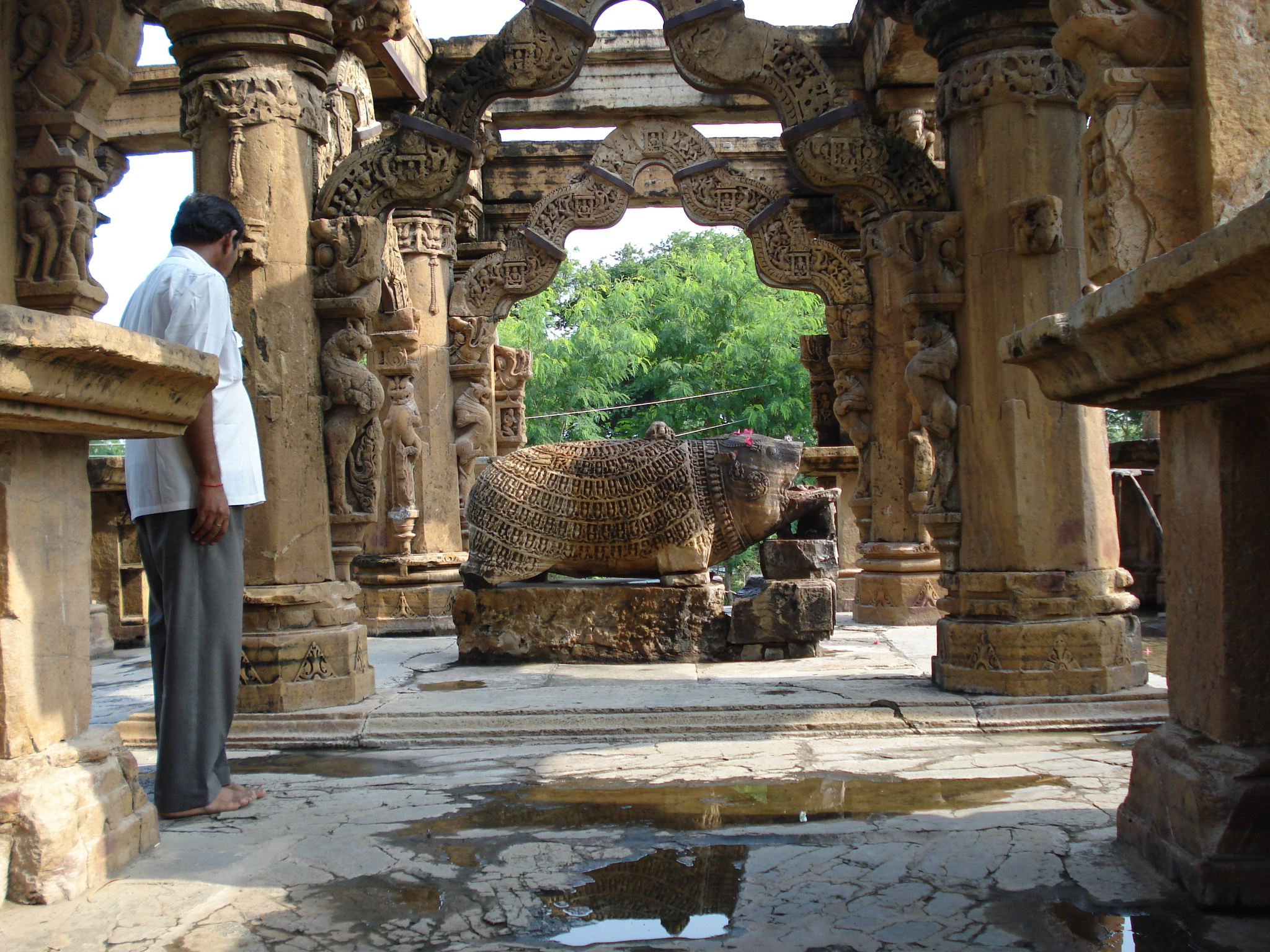 Nava Torana Temple at Khor in Chittorgarh district, Rajasthan, India